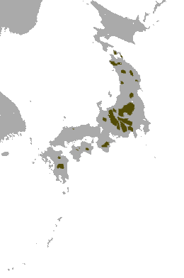 True's Shrew Mole (Dymecodon pilirostris) range